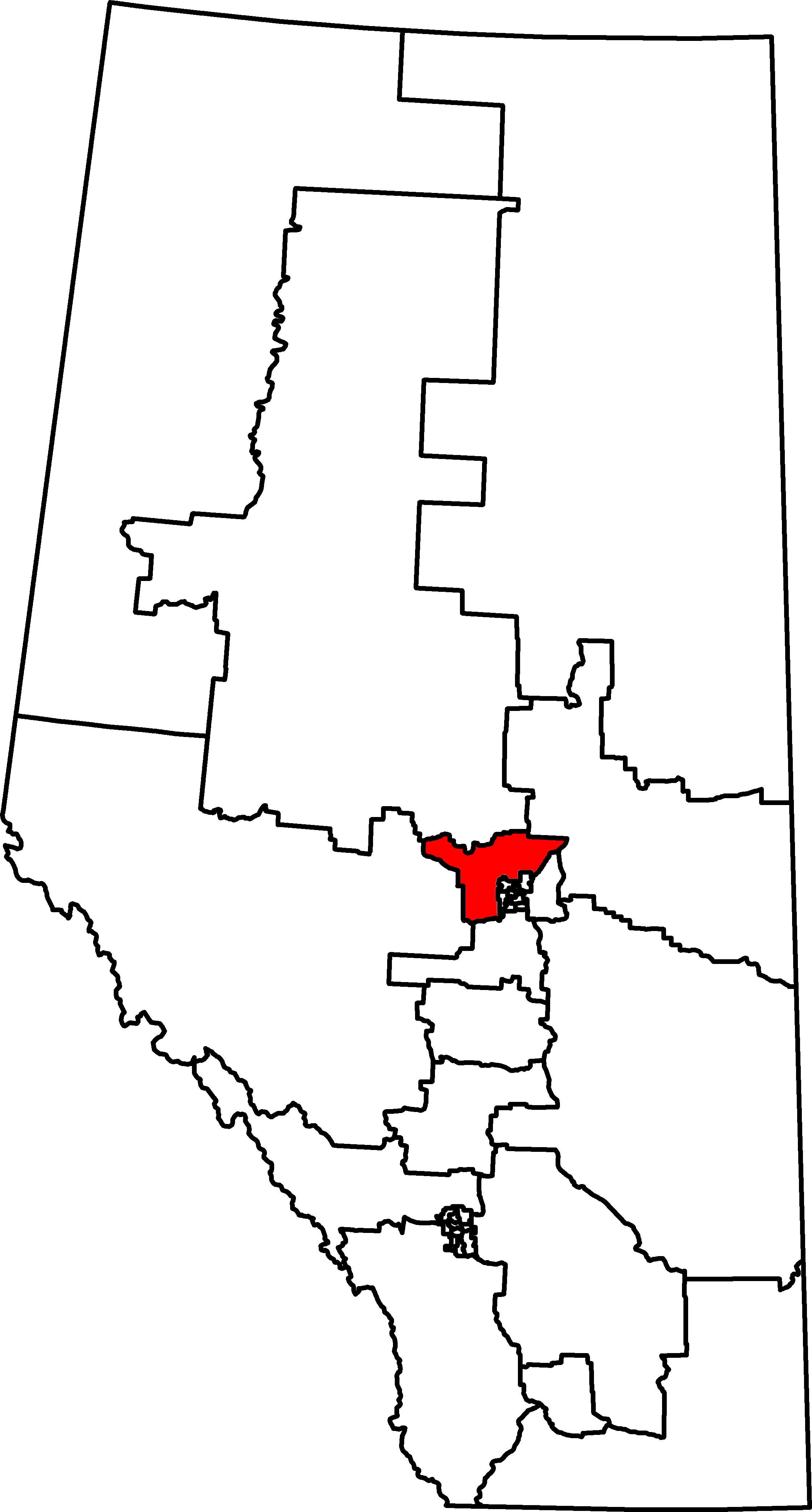 Federal Electoral District in Alberta, Canada as of the 2013 Representation Order.